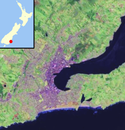 Satellite photo location map of Dunedin, New Zealand. Based on File:DunedinSatmap.png by James Dignan, User:Grutness, satellite photo from File:Otago harbour landsat.jpg / NASA World Wind Landsat data